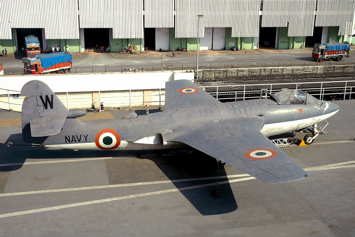 Indian Navy Hawker Sea Hawk on the museum ship INS Vikrant